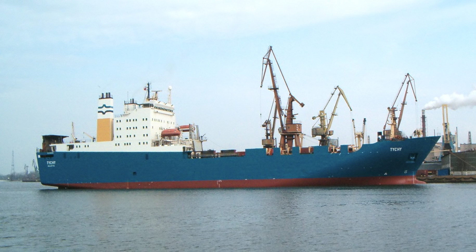 Polish Ro-Ro Cargo Ship TYCHY IMO Number: 8302284 MMSI Number: 249516000 Callsign: 9HXP4 Length: 148 m Beam: 23 m